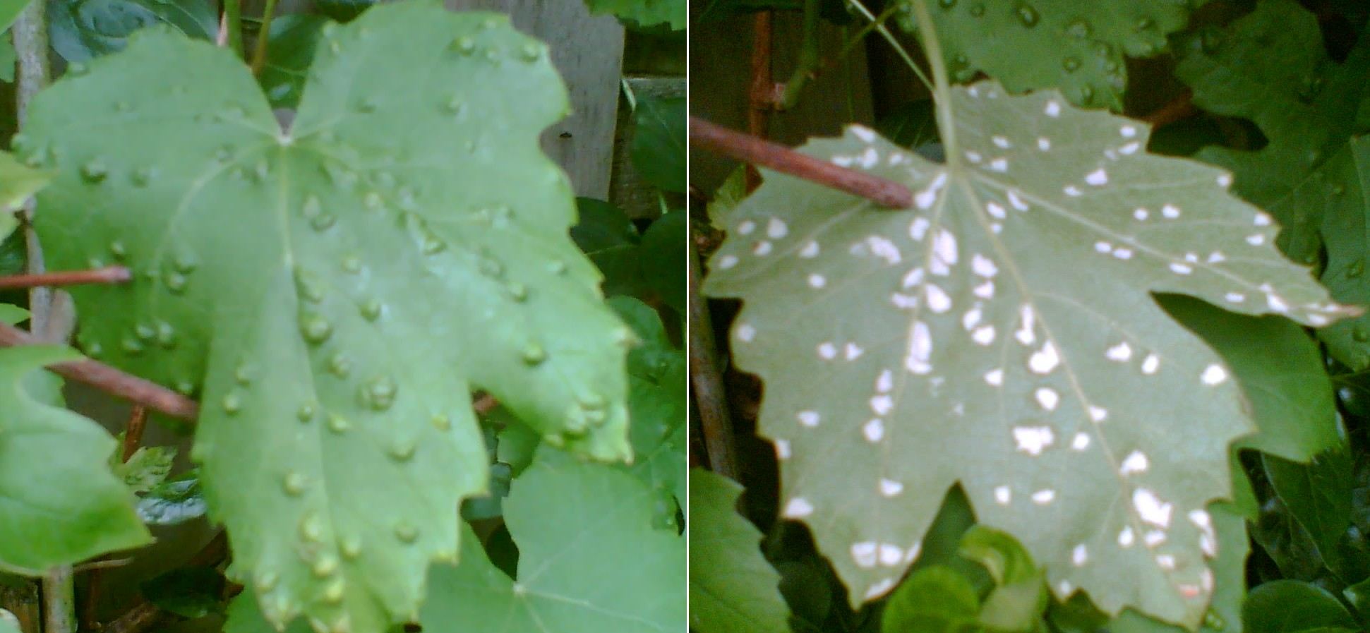 Eriophyes vitis, illness/insect on grape leaves